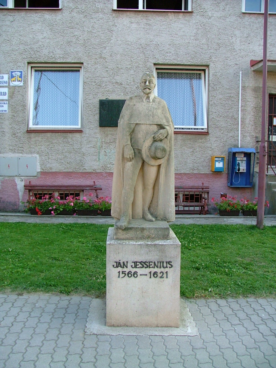 Statue of Ján Jesenský